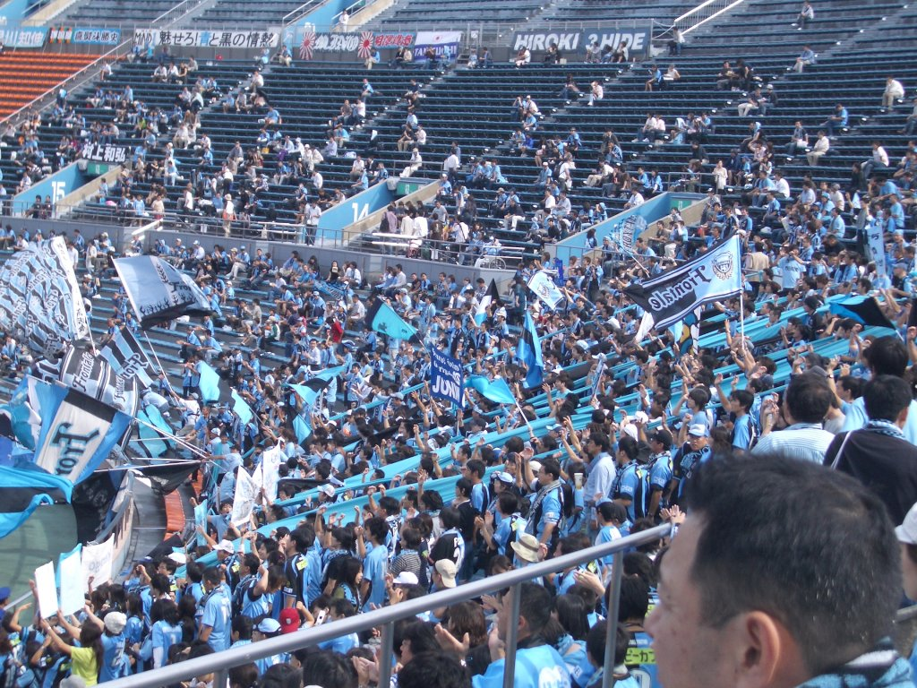 Olympic Stadium in Tokyo, Japan